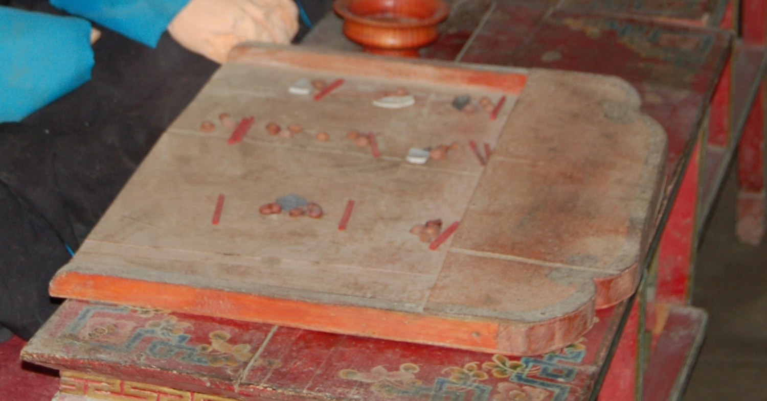 Tibetan calculation table from the museum in Gyantse